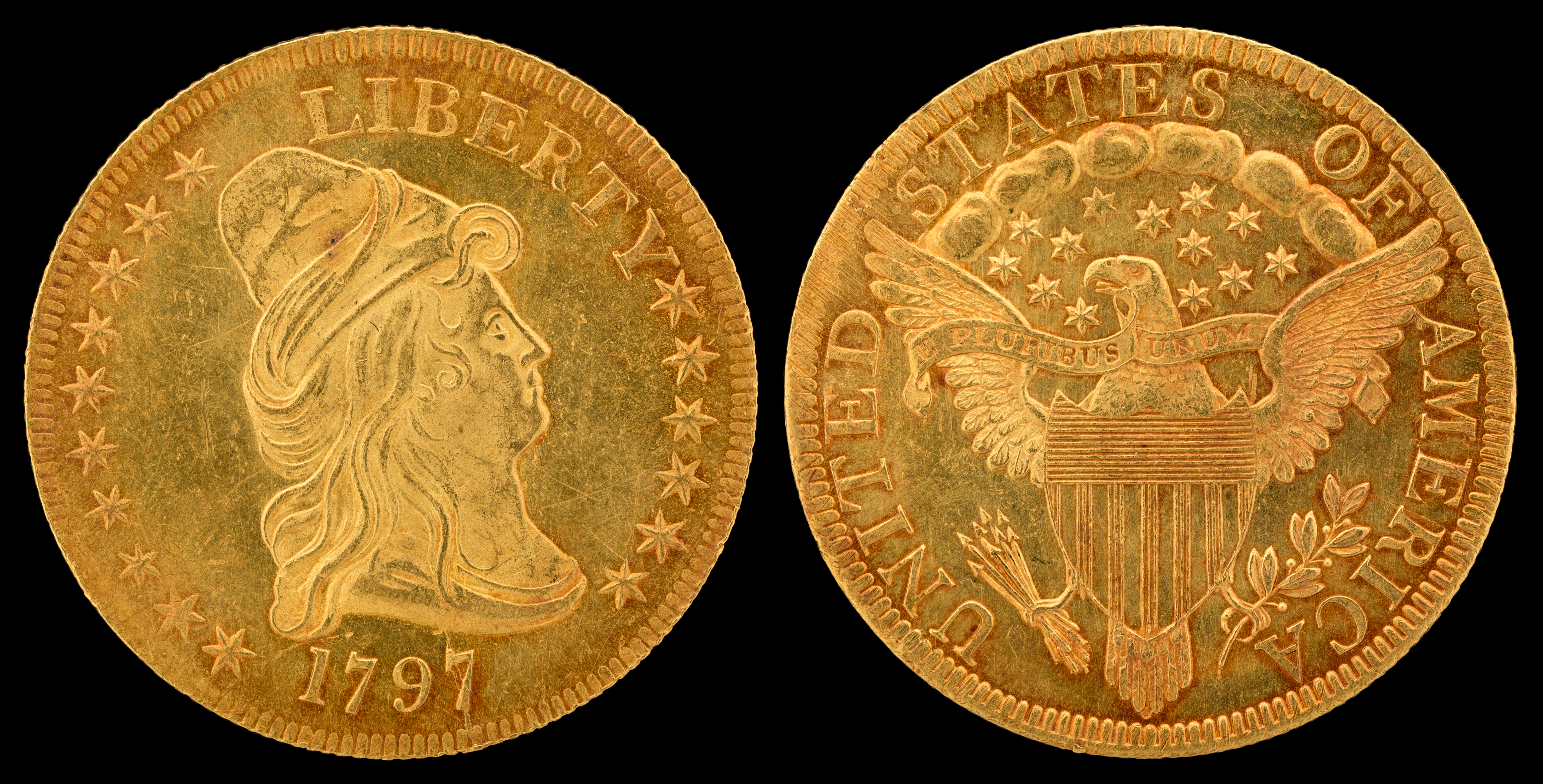 1797 G$5 Turban Head (or Capped Bust) (heraldic eagle)Gold (fineness 0.9160), 25mm, 8.75g, designed by Robert ScotUnique 16 star varietyJN2015-5318-19